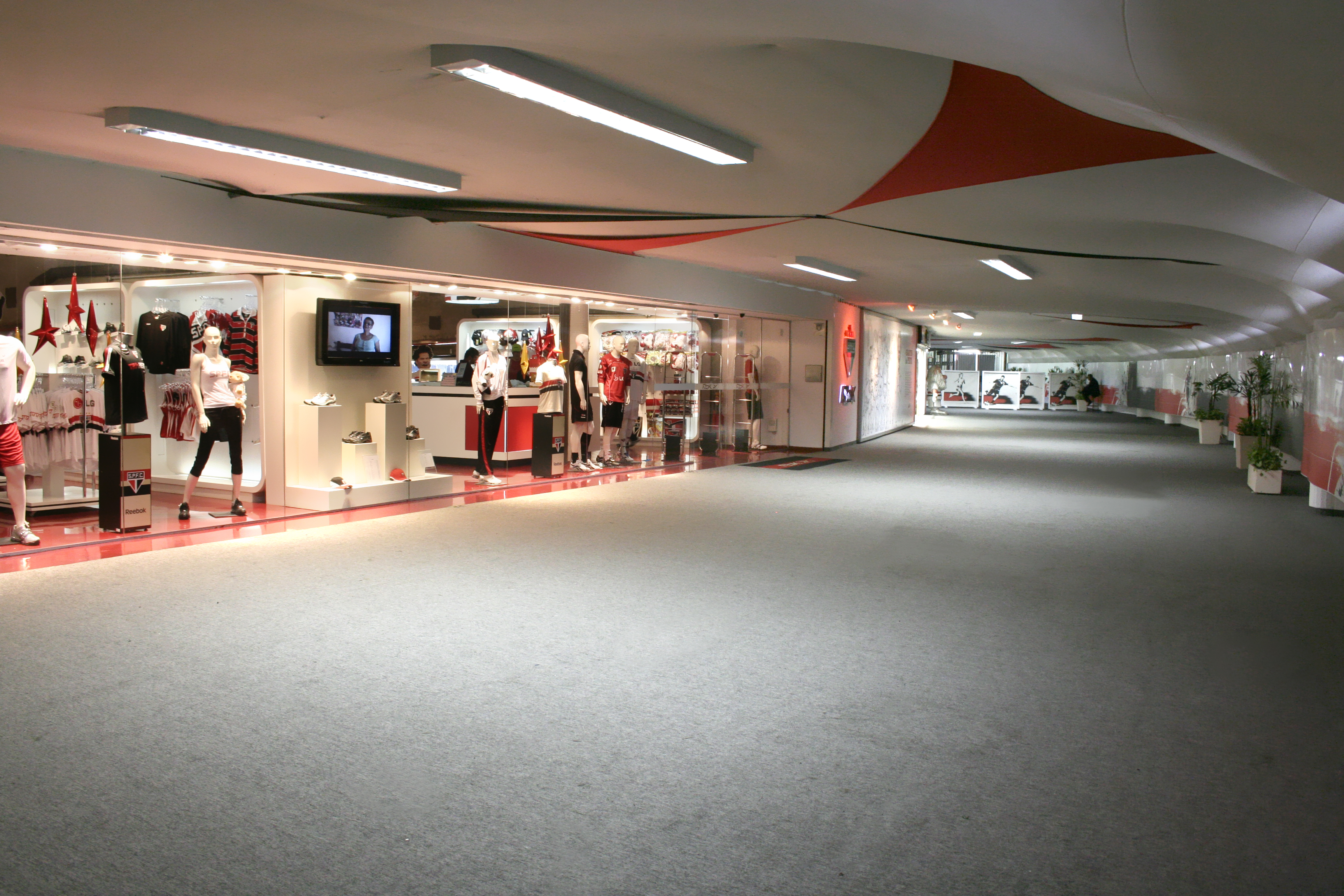 inside photo of the Morumbi Concept Hall, located in the Cícero Pompeu de Toledo stadium, known as Morumbi.